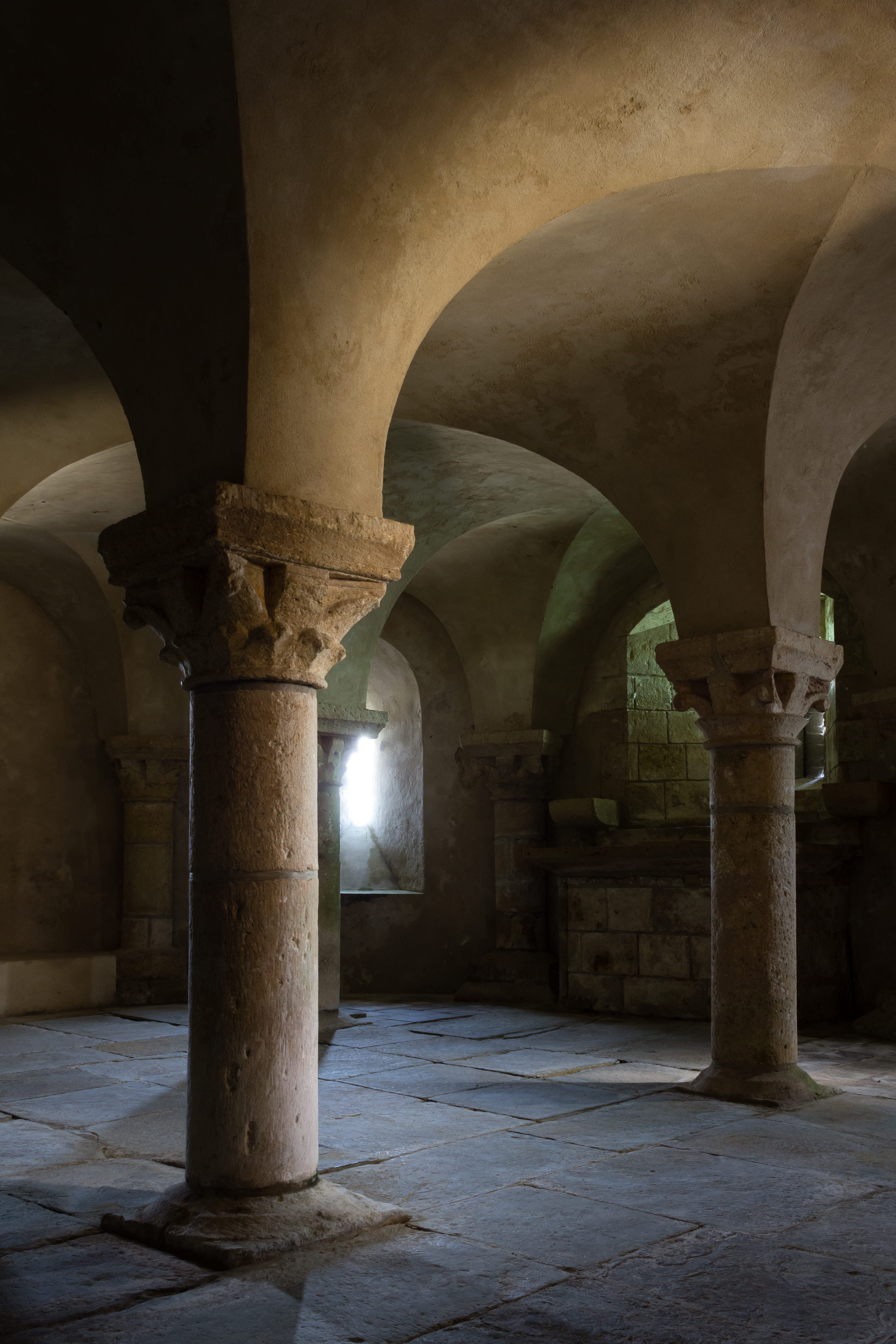 Crypt of the church of St. Marcouf in Saint-Marcouf (Manche, France). The crypt is half buried under the apse. Eight pillars support the arches. Three windows are drilled to the east. An altar is at the bedside.